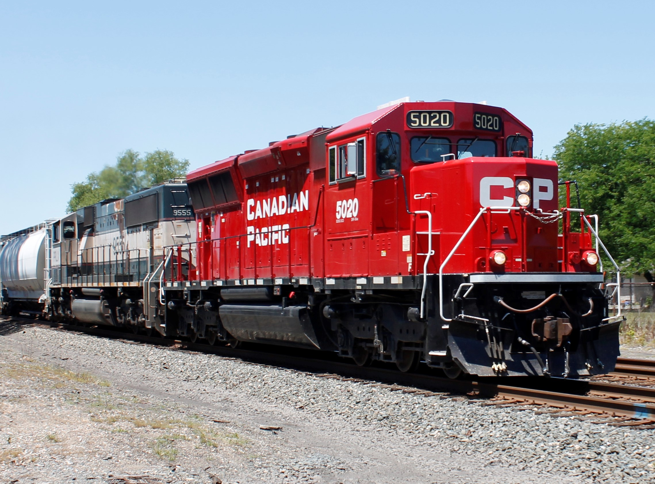 Canadian Pacific 5020, a SD30C-ECO, leads a manifest train through Chesterton, Indiana.